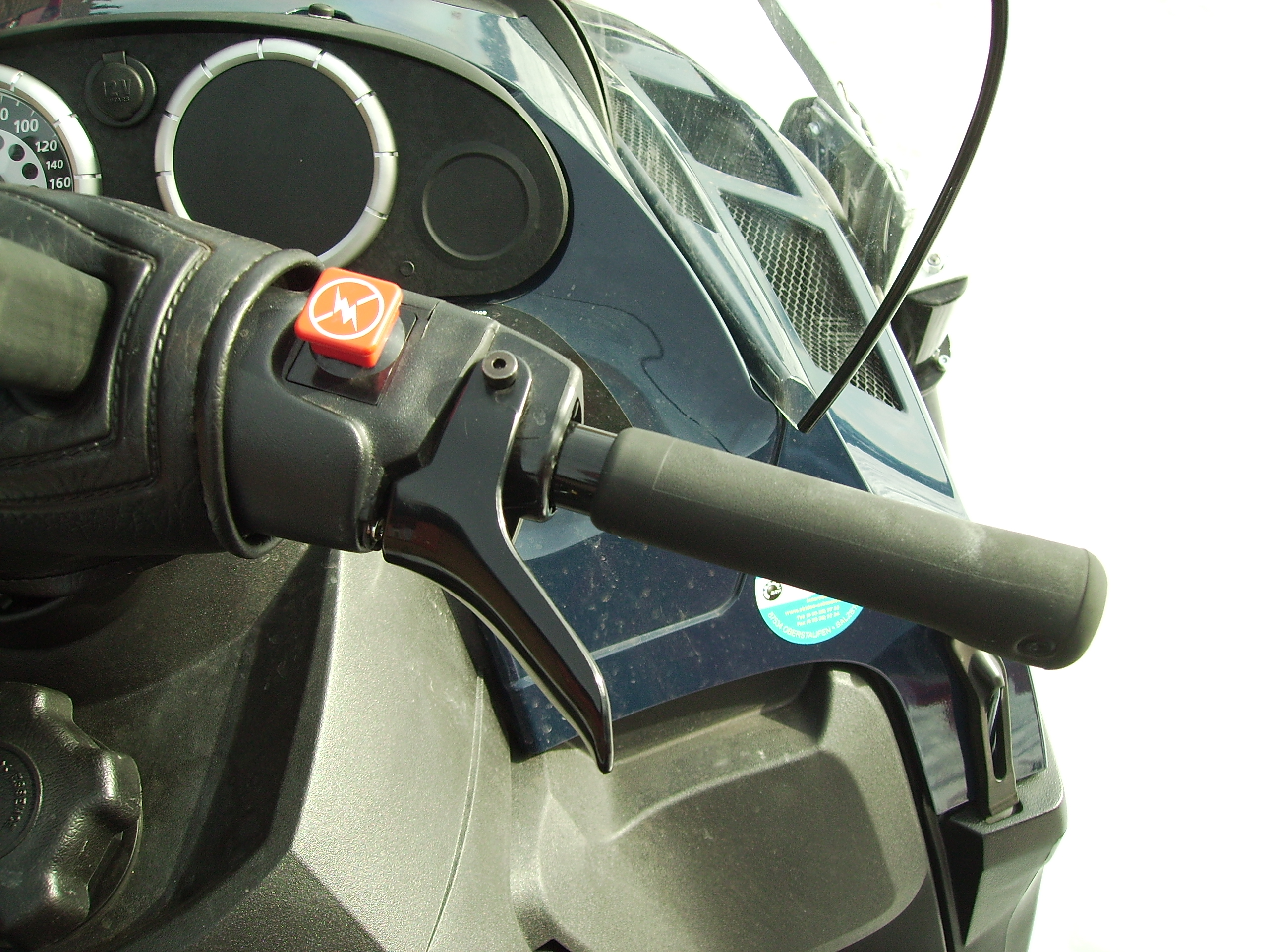 Daumengashebel Motorschlitten Lynx Pro Yeti, links daneben roter Not-Aus-Knopf throttle of a snowmobile (Lynx Pro Yeti), red emergency stop button